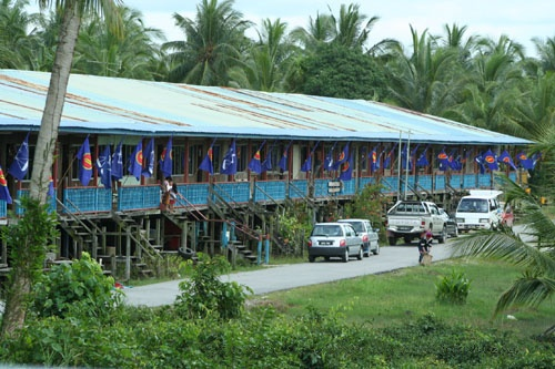 A row of Iban longhouses near Setiam, Kuala Tatau-Bintulu road. Flags of Sarawak Progressive Democratic Party (SPDP, a component party of Sarawak Barisan Nasional) were flown at the longhouses during 2008 Malaysian General Election.